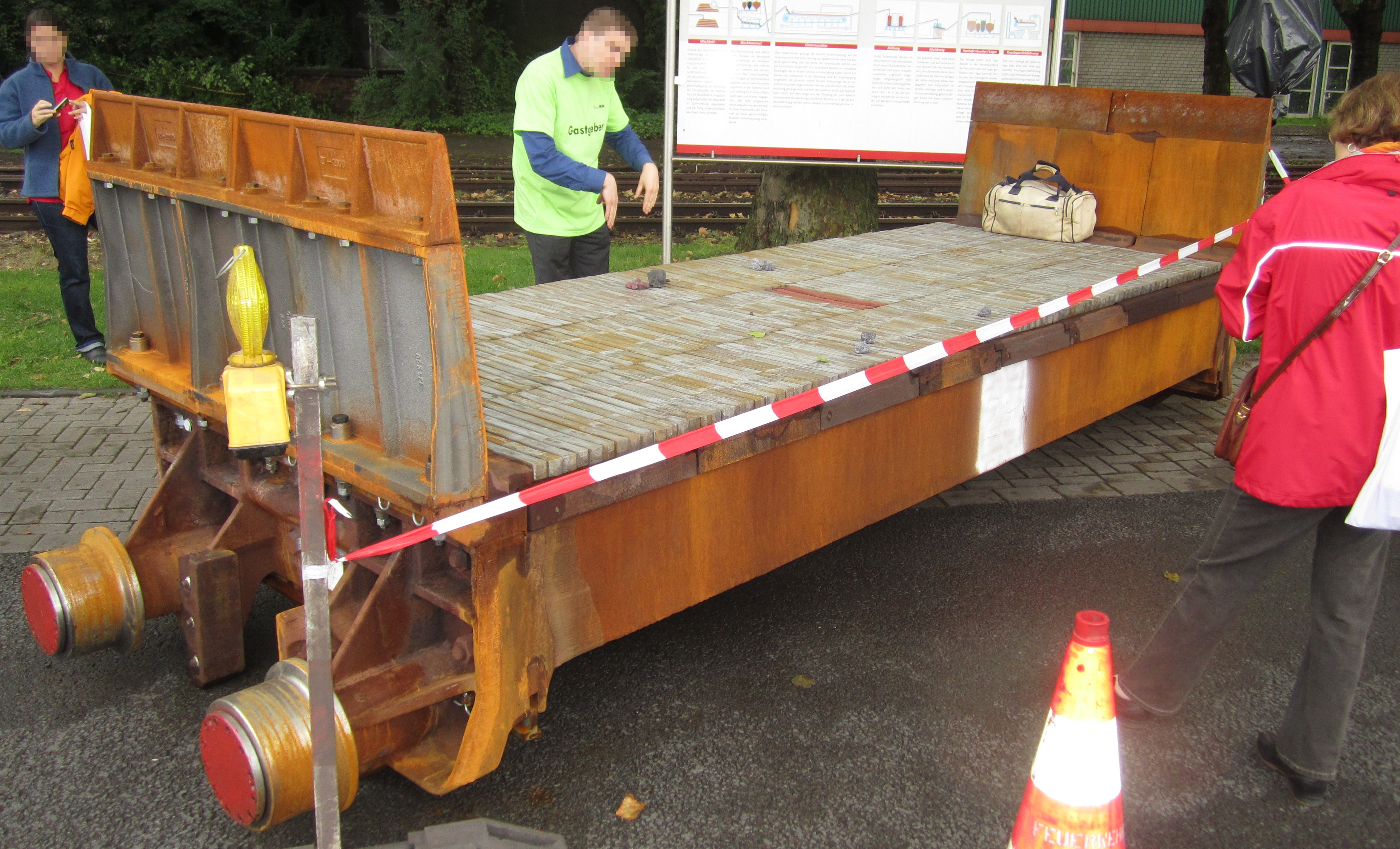 Rost segment of a Dwight-Lloyd-Sinter Machine (HKM, Duisburg, Germany).